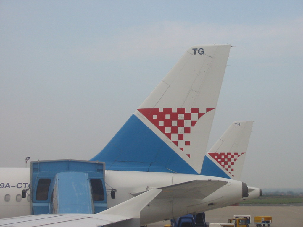 croatia airlines A319 (9A-CTG)